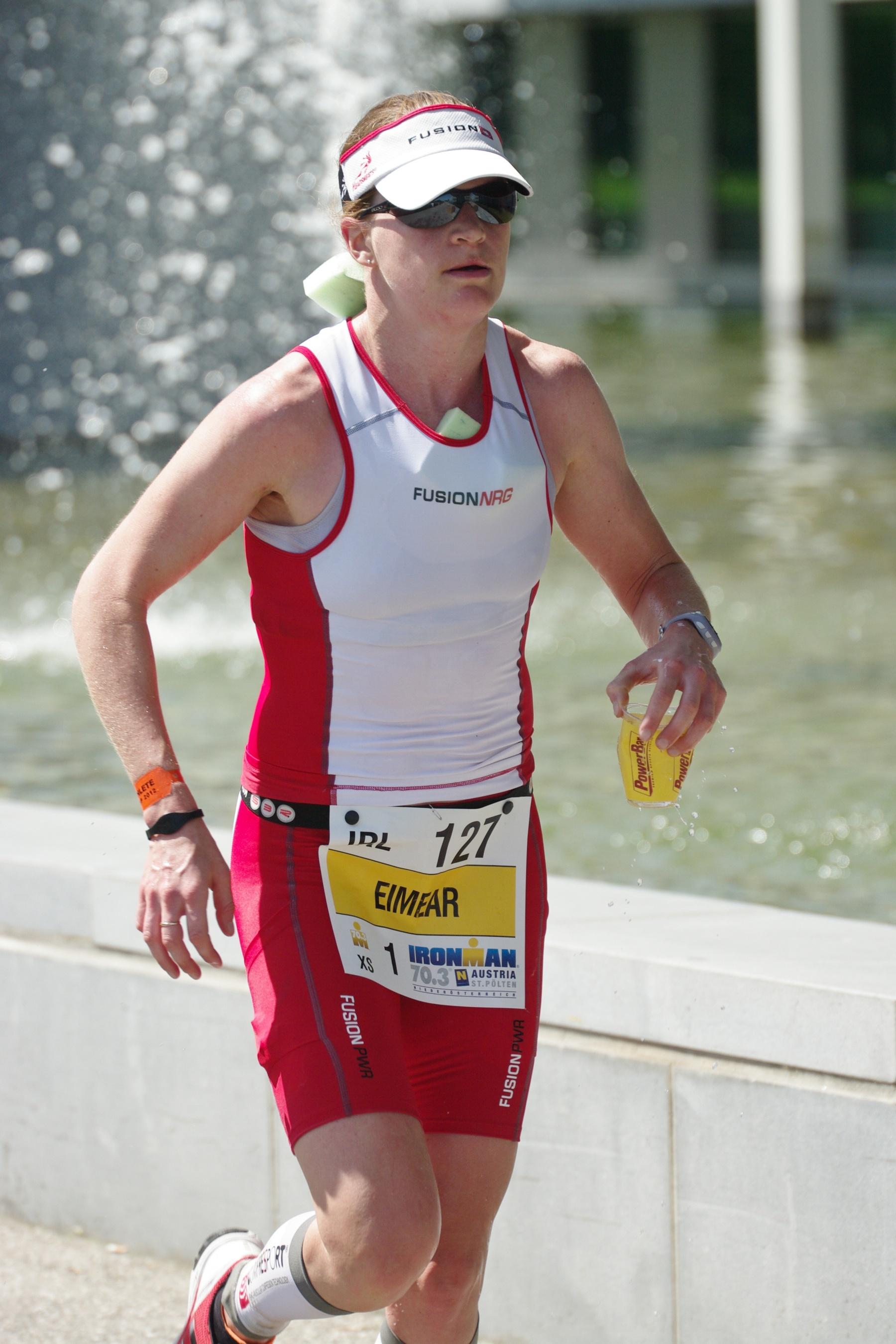 Irish triathlete Eimear Mullan in the Ironman 70.3 Austria on 20 May 2012 in St. Pölten.